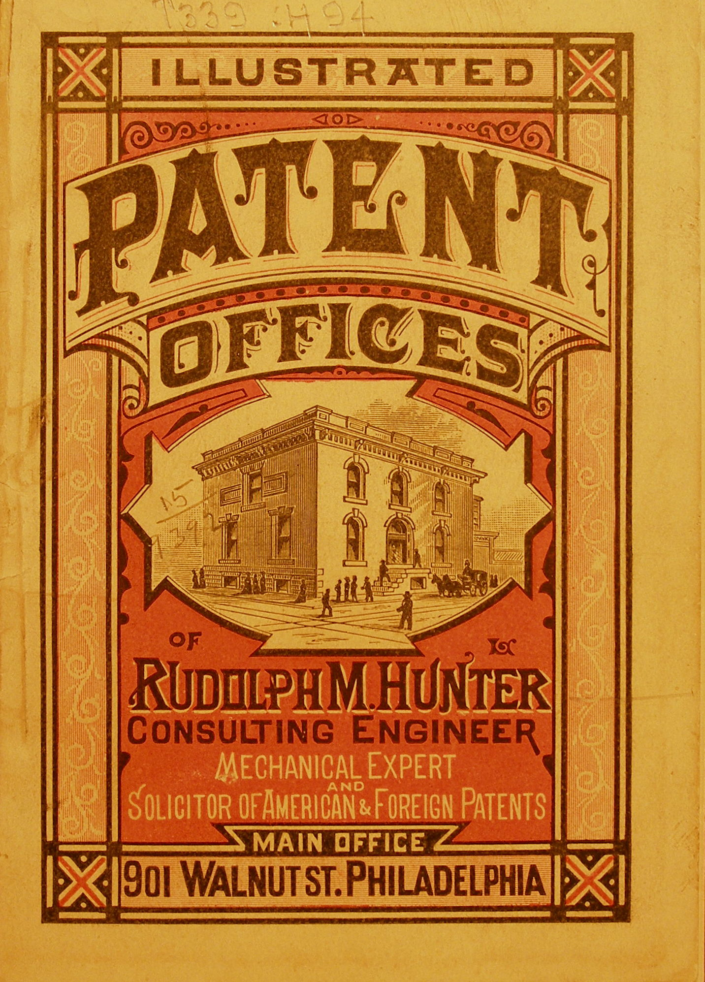 Cover of promotional book "Illustrated Manual for Inventors on American and Foreign Patents, etc." by Rudolph M. Hunter.